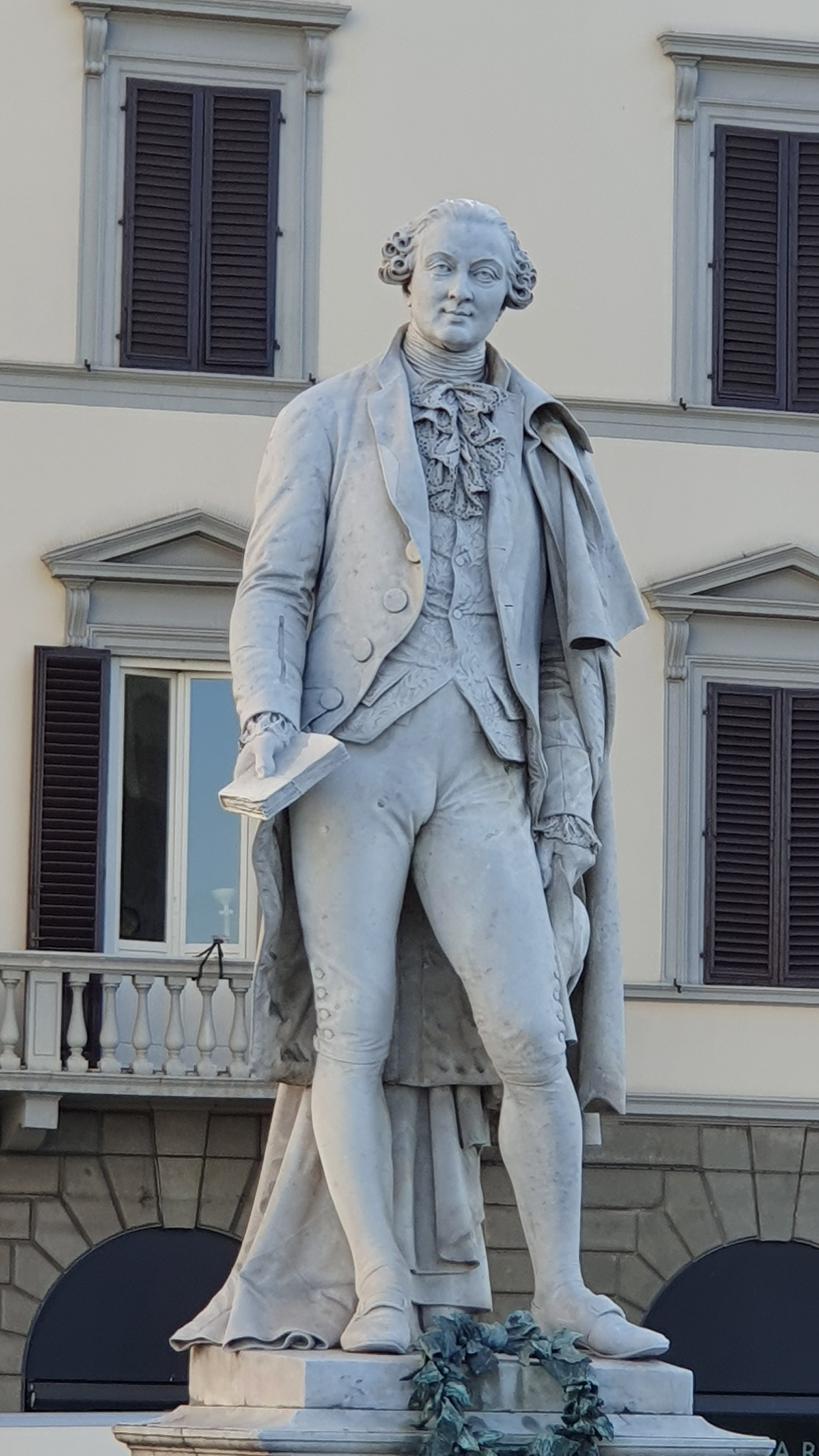 Monument to Carlo Goldoni (Florence) by Ulisse Cambi